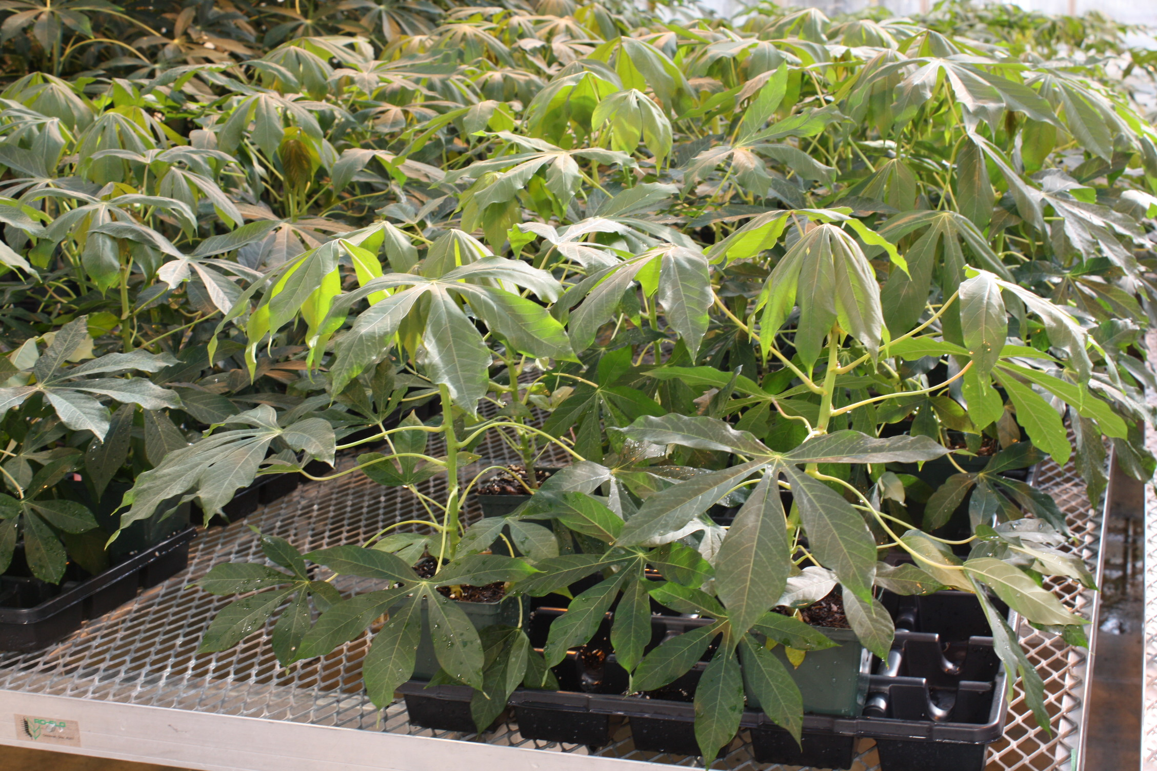 Cassava grown in the greenhouse